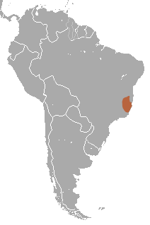 Atlantic Titi (Callicebus personatus) range